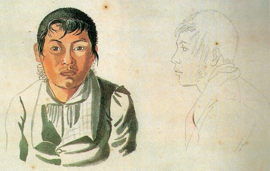 Caxibi indian, in Brazil.